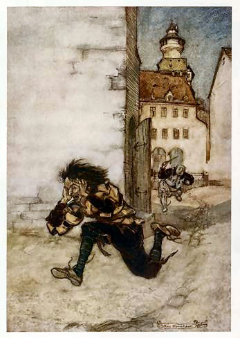 Illustration for 'Clever Gretel' illustrated by Arthur Rackham from 'Grimms' Fairy Tales' (1900)